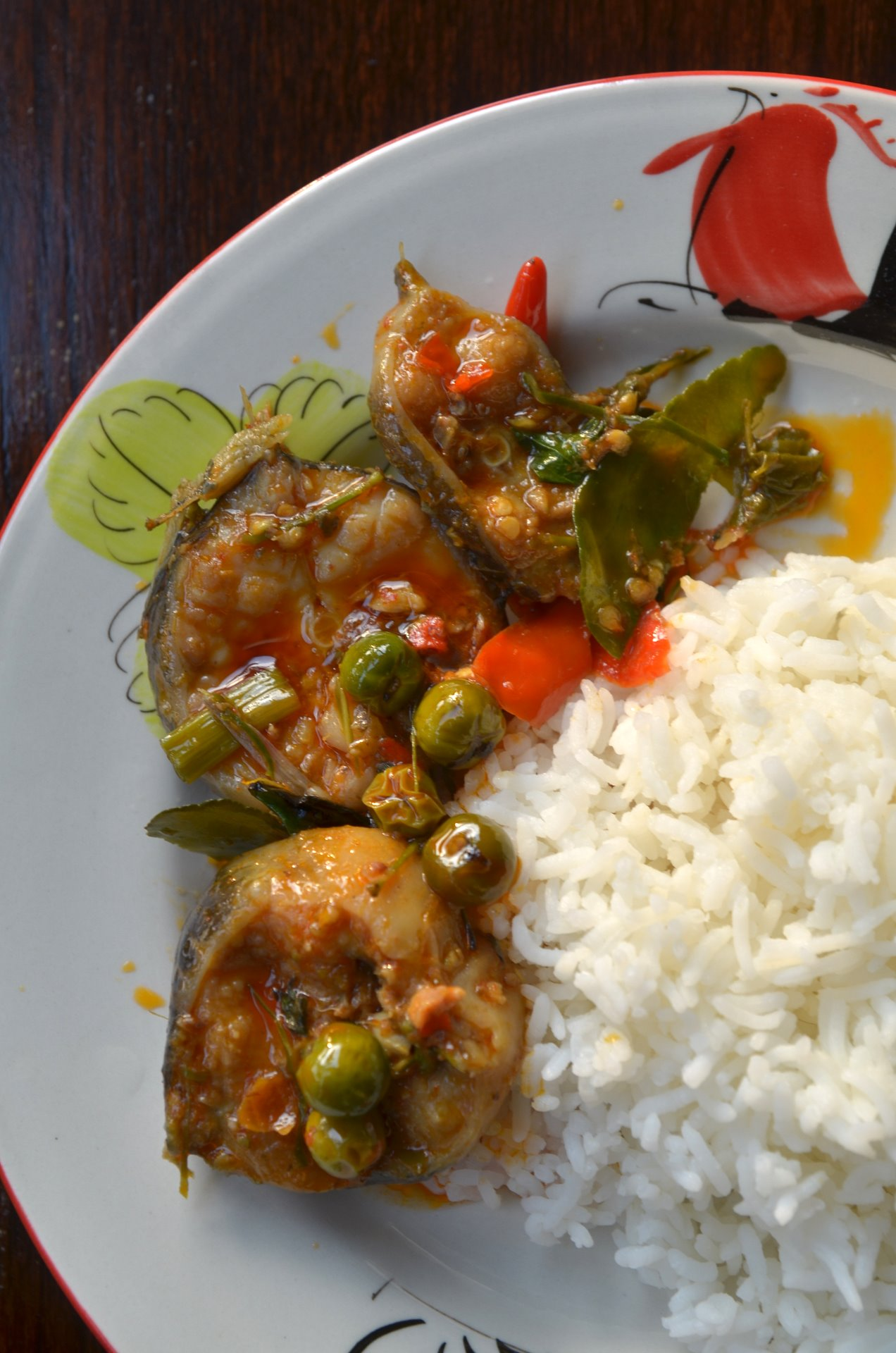 Pla duk phat phet (Thai script: ปลาดุกผัดเผ็ด): catfish stir-fried in a spicy curry paste, with lime leaves and pea aubergine (solanum torvum).